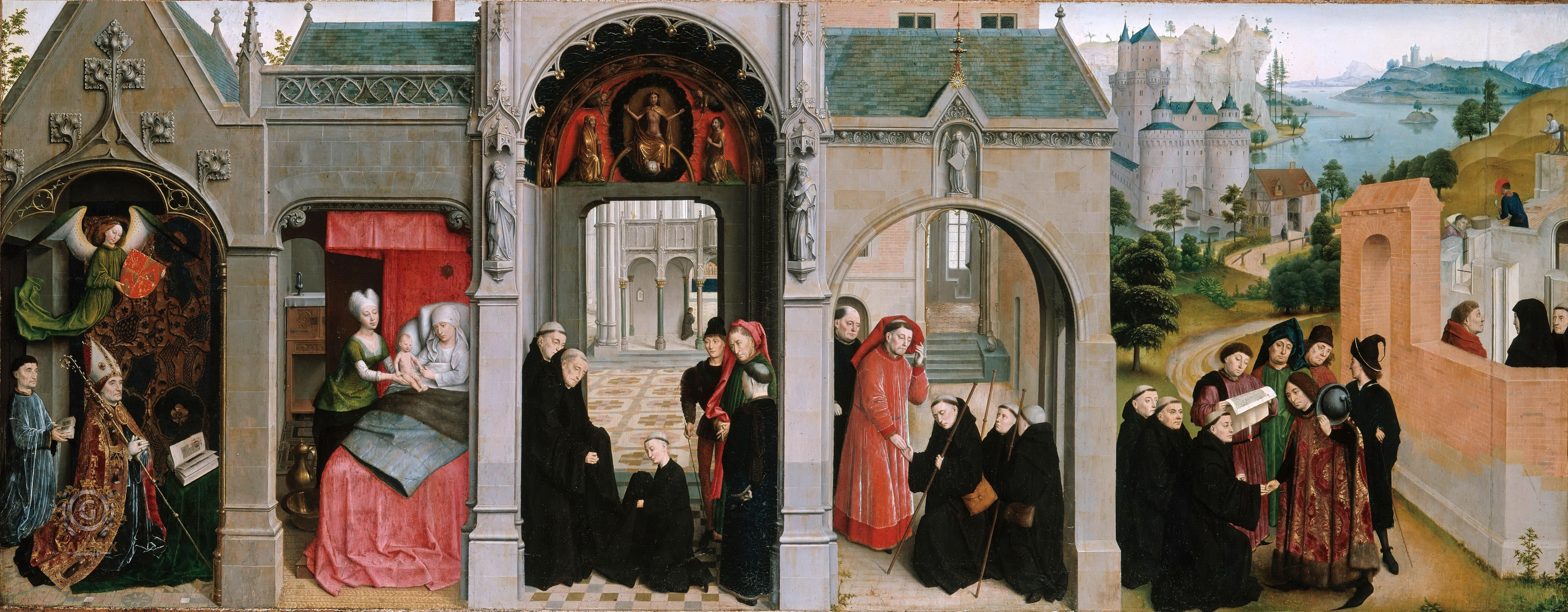 Simon Marmion, Saint Bertin Altarpiece, ca 1459, Left wing, side A, Gemäldegalerie, Berlin